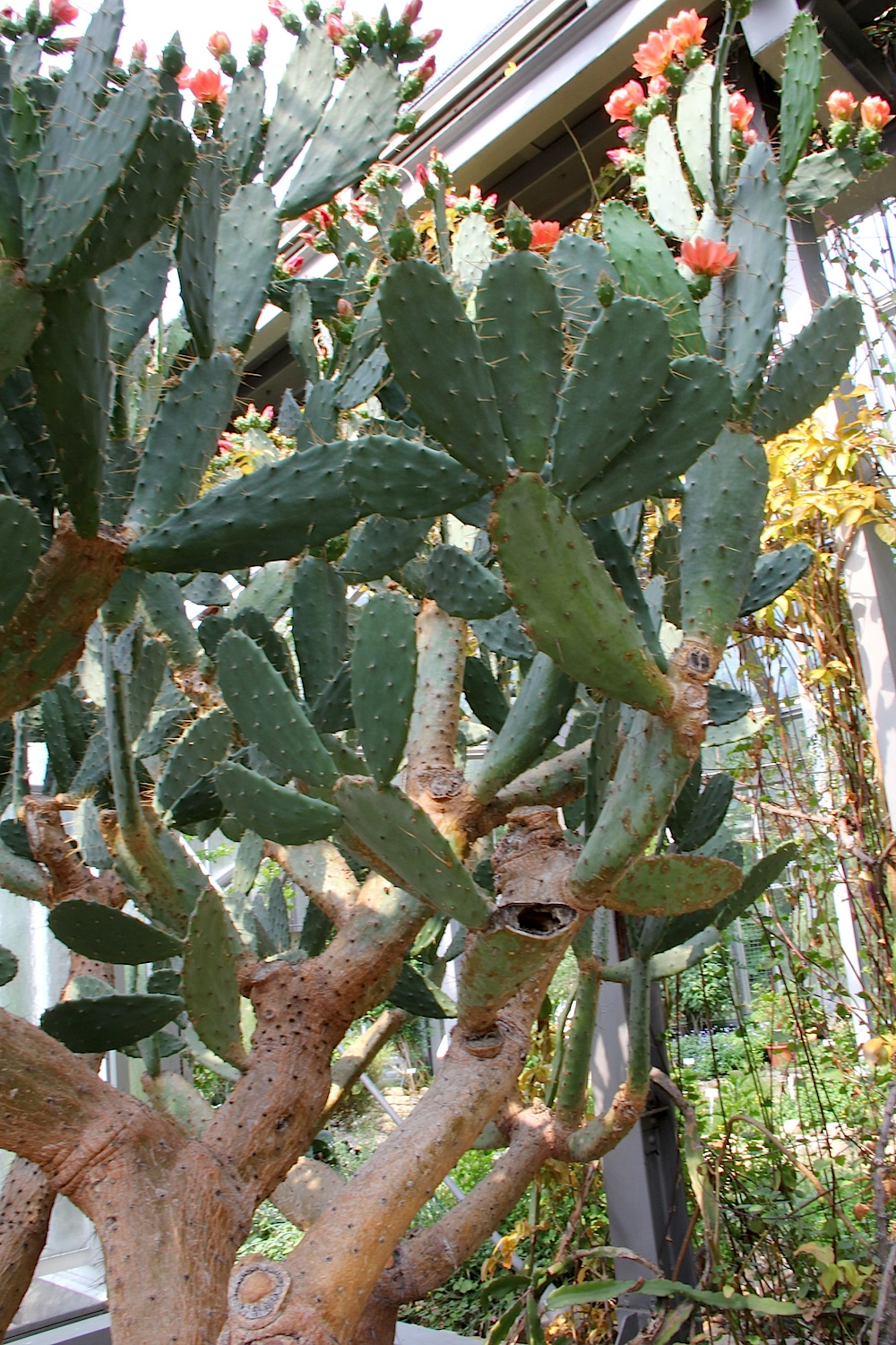 Opuntia elatior